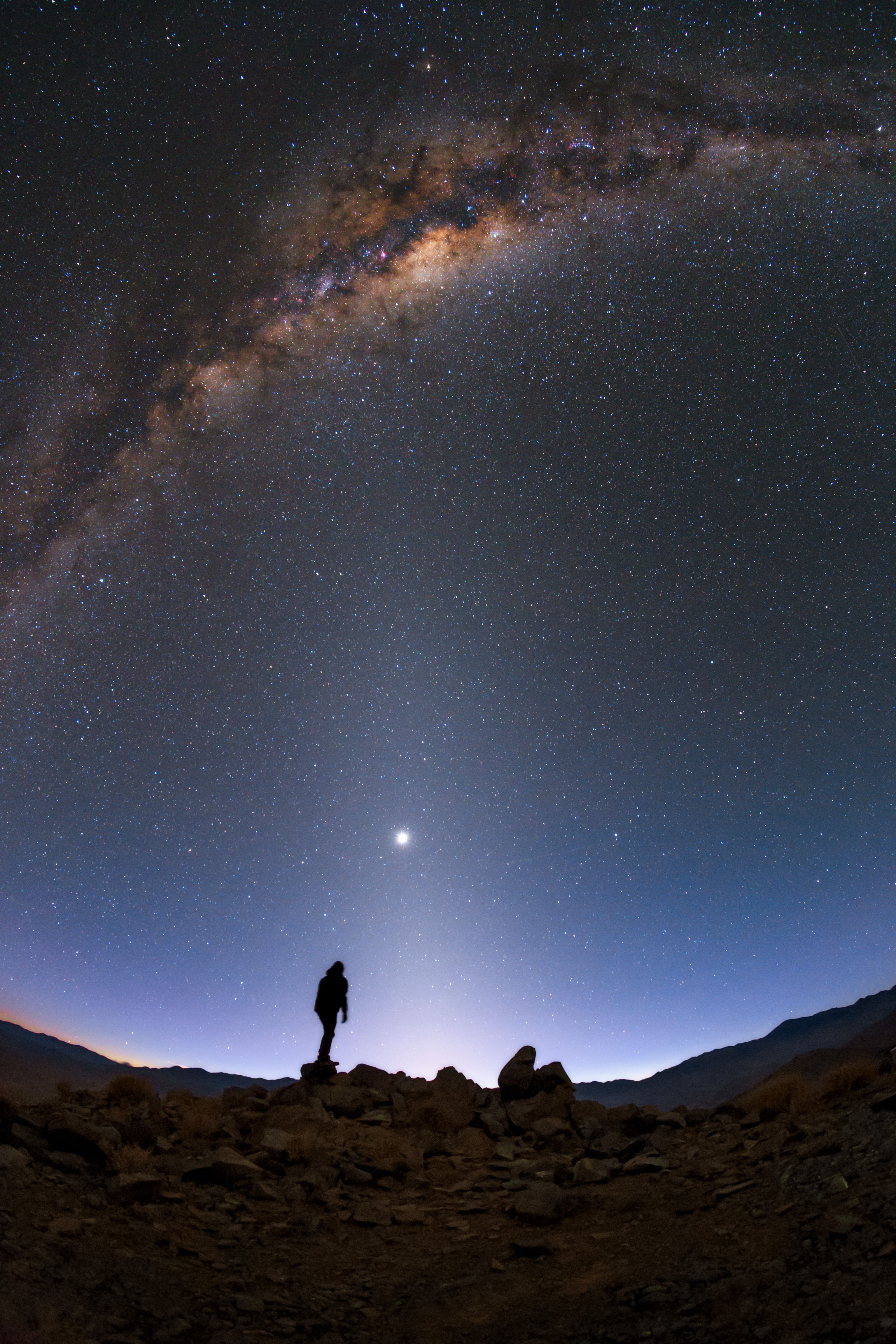 The faint light extending up from the horizon just below centre of this photo is known as zodiacal light, caused by sunlight scattering from cosmic dust in the plane of our Earth’s orbit. A second band of light can be seen at the horizon on the lower left. This red light is airglow, produced by the Earth’s atmosphere. Airglow is caused by processes taking place in the upper atmosphere, including cosmic rays, recombining photoionized atoms, and various chemical reactions between oxygen, nitrogen, hydroxyl, sodium, and lithium atoms. The third and final band is the Milky Way, our home galaxy, high in the sky. This band consists of billions of stars of all kinds. Many of them are hidden to the human eye behind large layers of interstellar dust, giving the Milky Way its characteristically mottled look. At the centre of the image stands ESO Photo ambassador Babak Tafreshi, watching the light spectacle unfold around him. His fellow photo ambassador Yuri Beletsky captured this image during the ESO UHD Expedition in 2014, as Babak travelled through the Chilean desert to visit the sites of ESO’s telescopes.